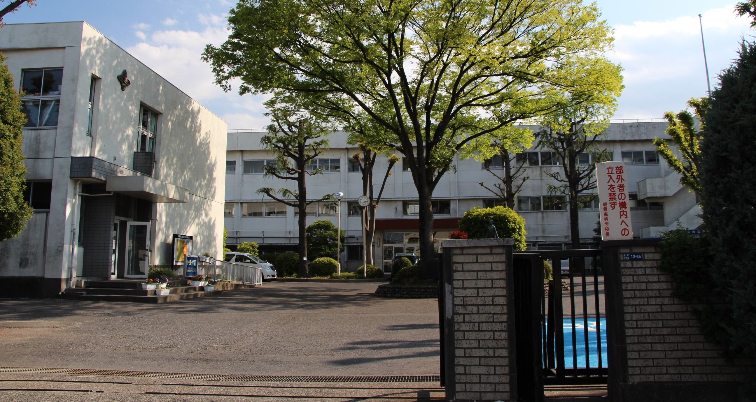 Saitama prefectural Asaka-Nishi High School, taken on April 27, 2013.